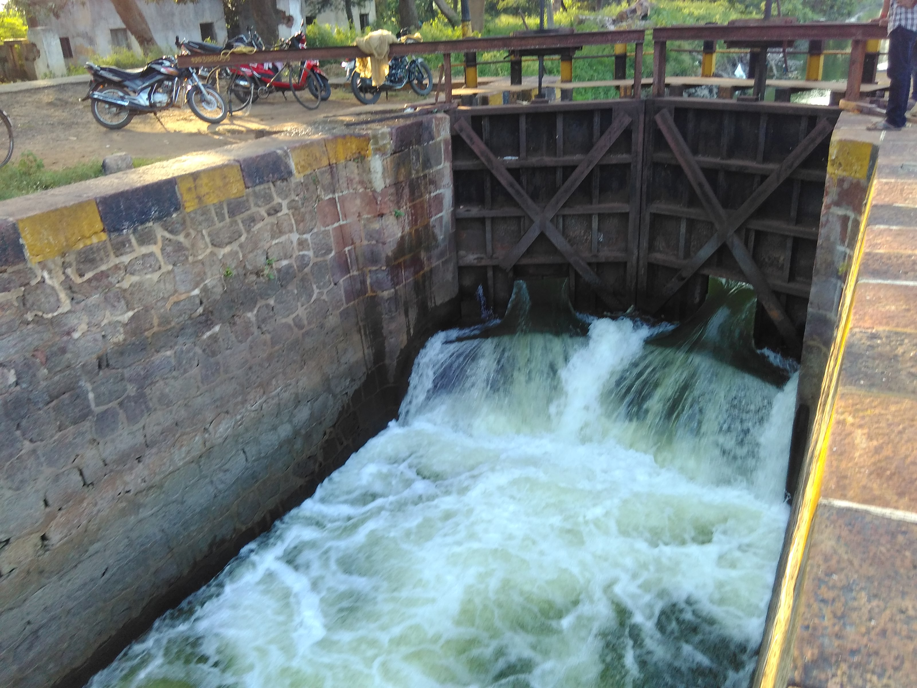 irrigation canal locks